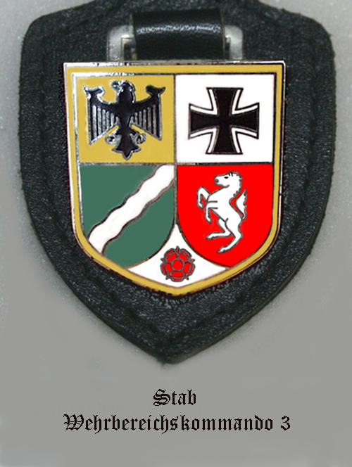 Internal coat of arms Stab Wehrbereichskommando III (WBK III) of the Bundeswehr (Armed Forces of the Federal Republic of Germany). → Remarks on naming and categorization scheme